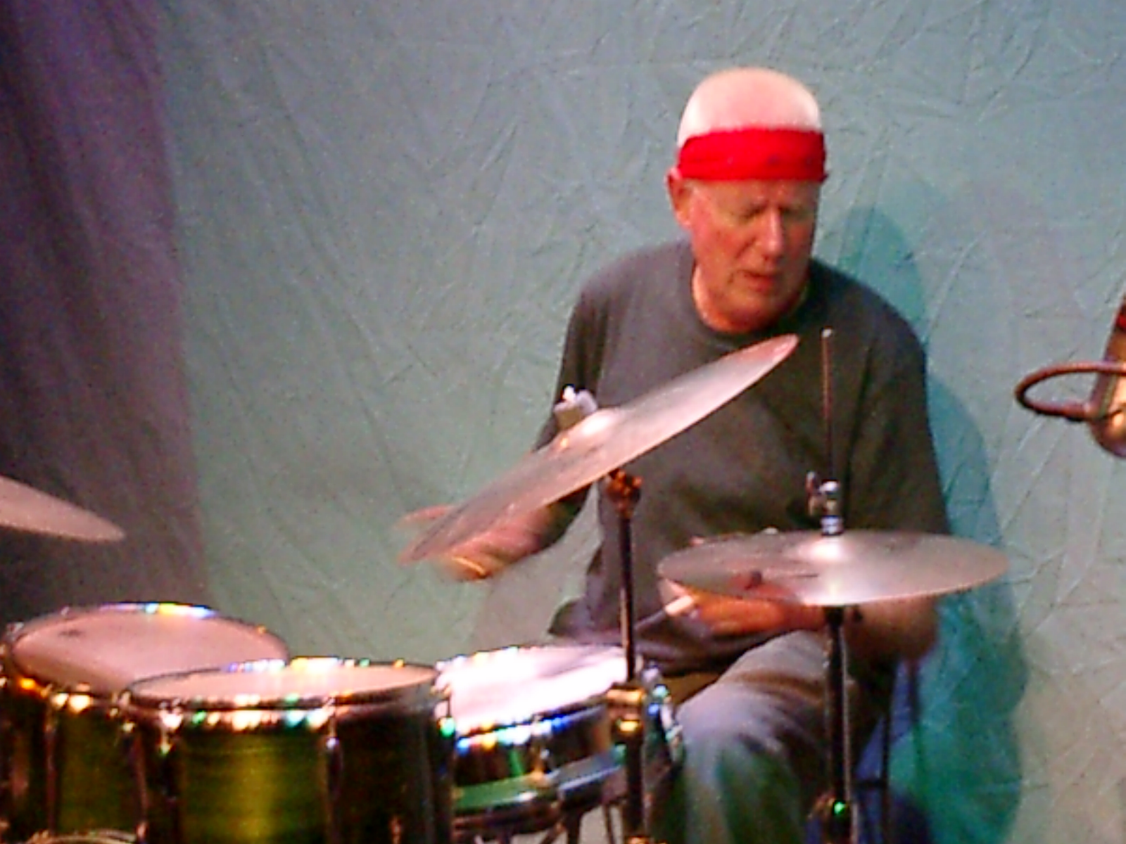 Han Bennink performing with Peter Brotzmann at the Vision Club in New York City, October 6, 2006. Photo by Ivana Ng.